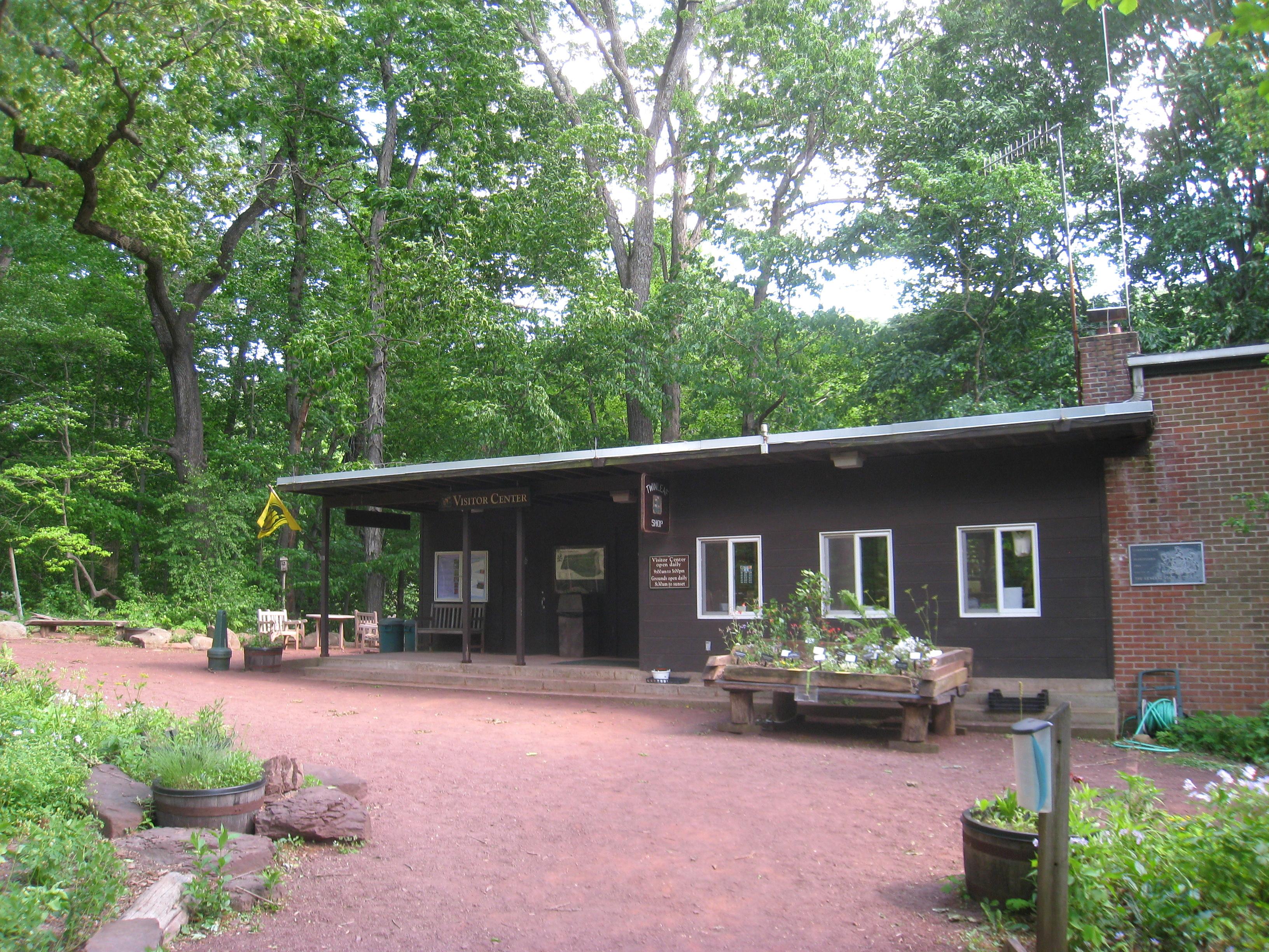 Bowman's Hill Wildflower Preserve, 1635 River Road (Pennsylvania Route 32), New Hope, Pennsylvania, USA.